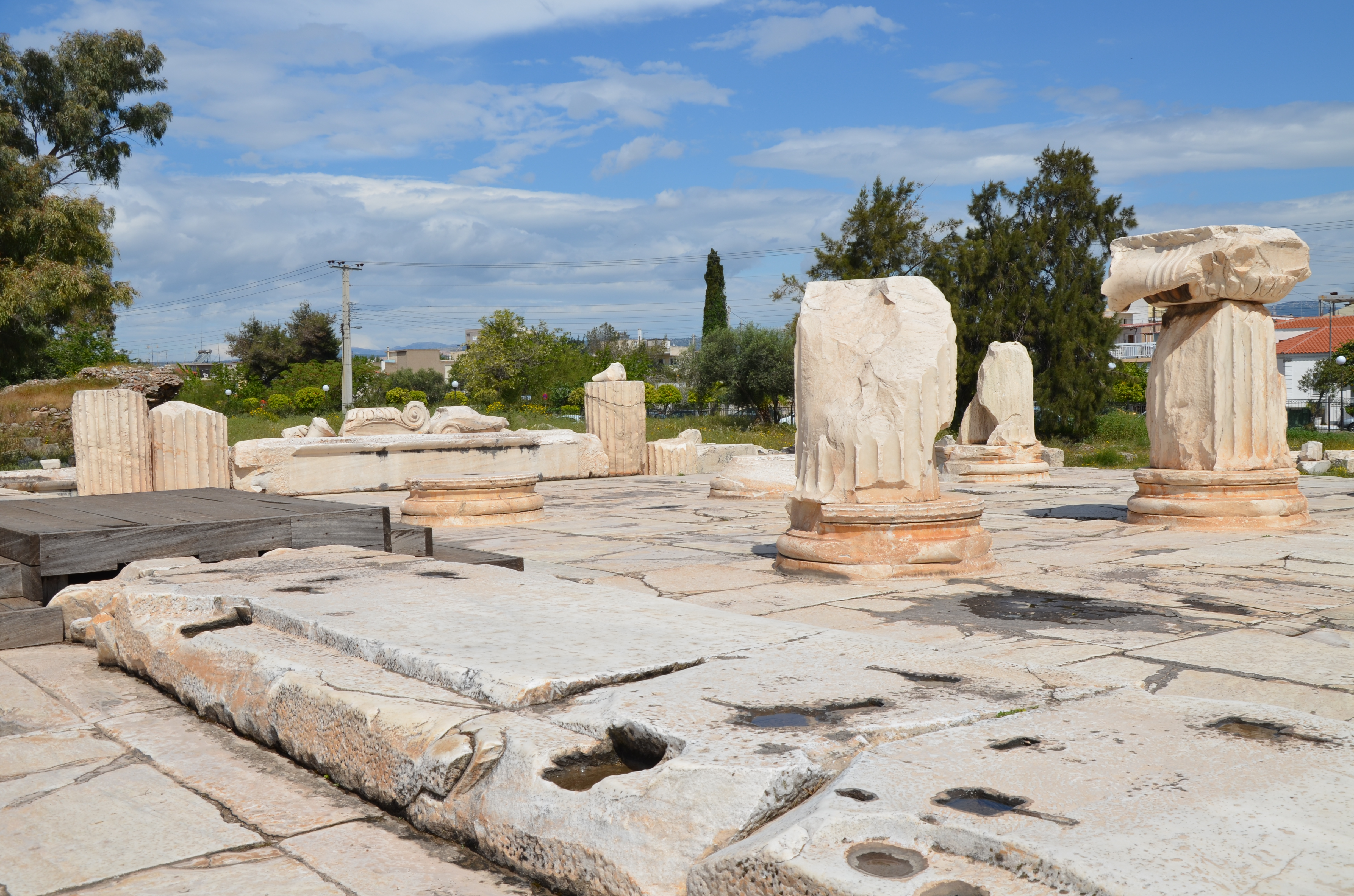 The Greater Propylaea, a monumental gate probably built by Marcus Aurelius on the same site as an earlier gate from the time of Kimon, ca. 170 AD - ca. 180 AD, Eleusis